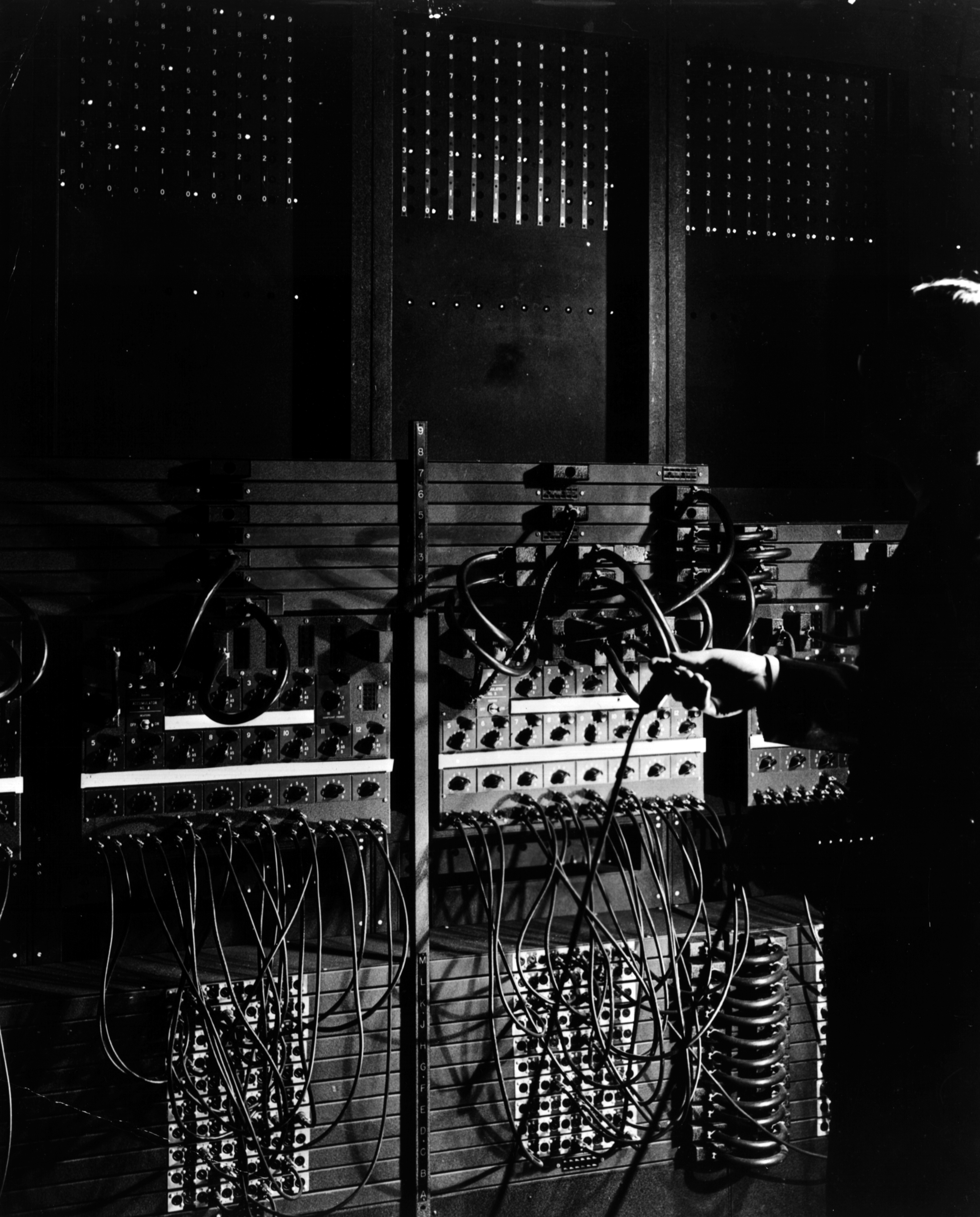 Harry Huskey holding a wire of the ENIAC. 'U.S. Army Photo' from the archives of the ARL Technical Library.